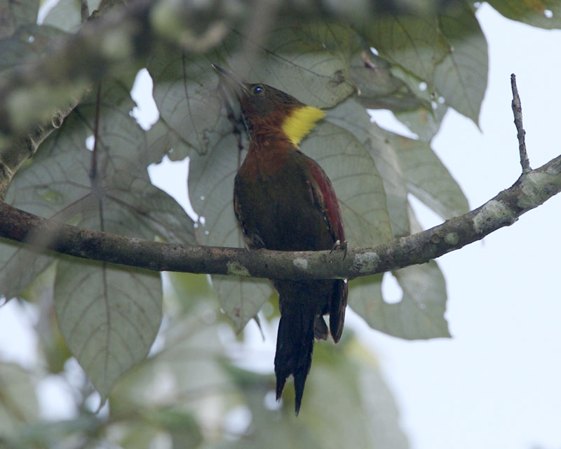 060903-checker-throated-woo.jpg